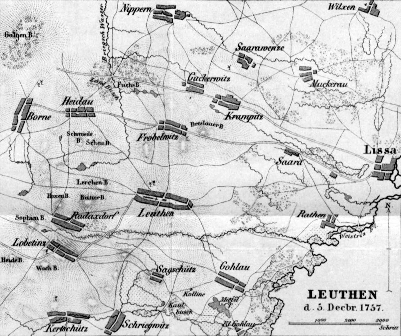 Image extracted from page 1079 of Deutsche National-Bibliothek. Volksthümliche Bilder und Erzählungen aus Deutschlands Vergangenheit und Gegenwart. Herausgegeben von F. Schmidt. Bd. 1-12', by SCHMIDT, Ferdinand - Jugendschriftsteller. Original held and digitised by the British Library. Copied from Flickr. Note: The colours, contrast and appearance of these illustrations are unlikely to be true to life. They are derived from scanned images that have been enhanced for machine interpretation and have been altered from their originals.